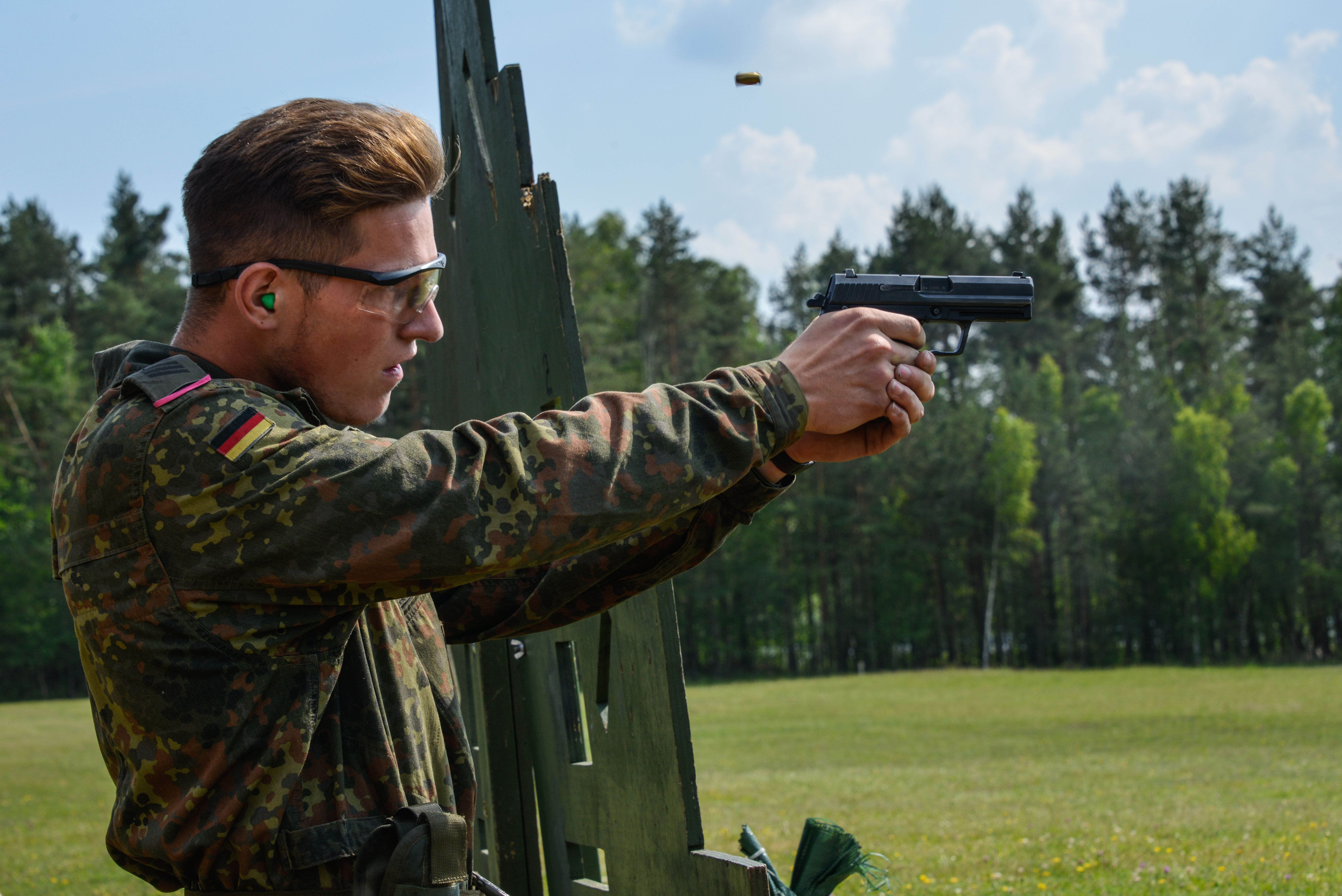 A German soldier assigned to the 3rd Panzer Battalion participates in the Combat Pistol Shoot event during the Strong Europe Tank Challenge, June 5, 2018. U.S. Army Europe and the German Army co-host the third Strong Europe Tank Challenge at Grafenwoehr Training Area, June 3 – 8, 2018. The Strong Europe Tank Challenge is an annual training event designed to give participating nations a dynamic, productive and fun environment in which to foster military partnerships, form Soldier-level relationships, and share tactics, techniques and procedures. (U.S. Army photo by Spc. Rolyn Kropf)